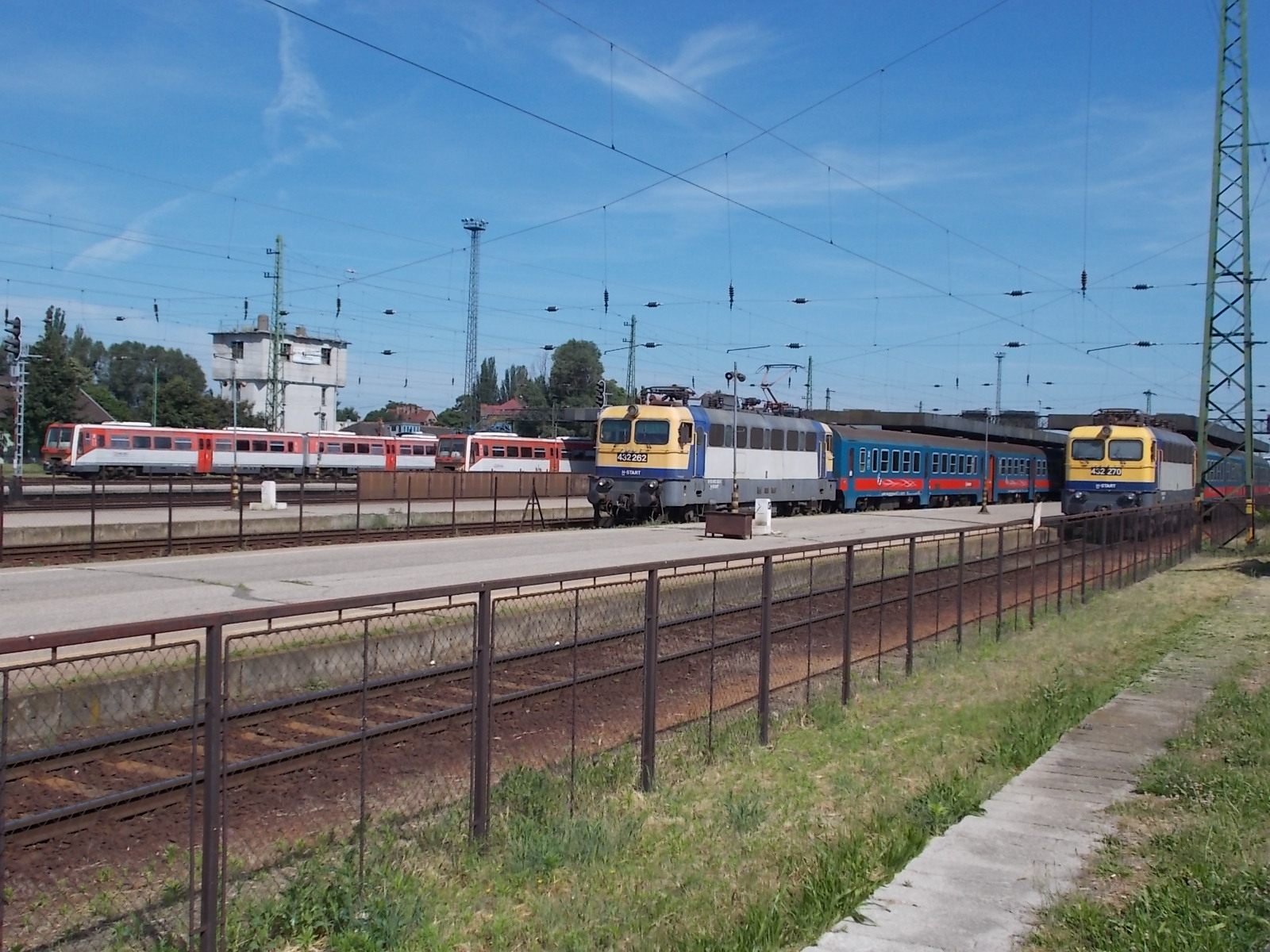 Hatvan railway station, MÁV 432.262 locomotive. - Hatvan, Heves County, Hungary.